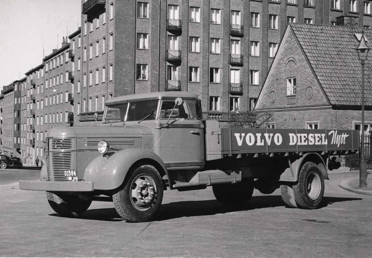 DIG92696: Circa 1950 Volvo L245 "Roundnose" truck with HP lift. 100hp, 6.1-liter VDC diesel.